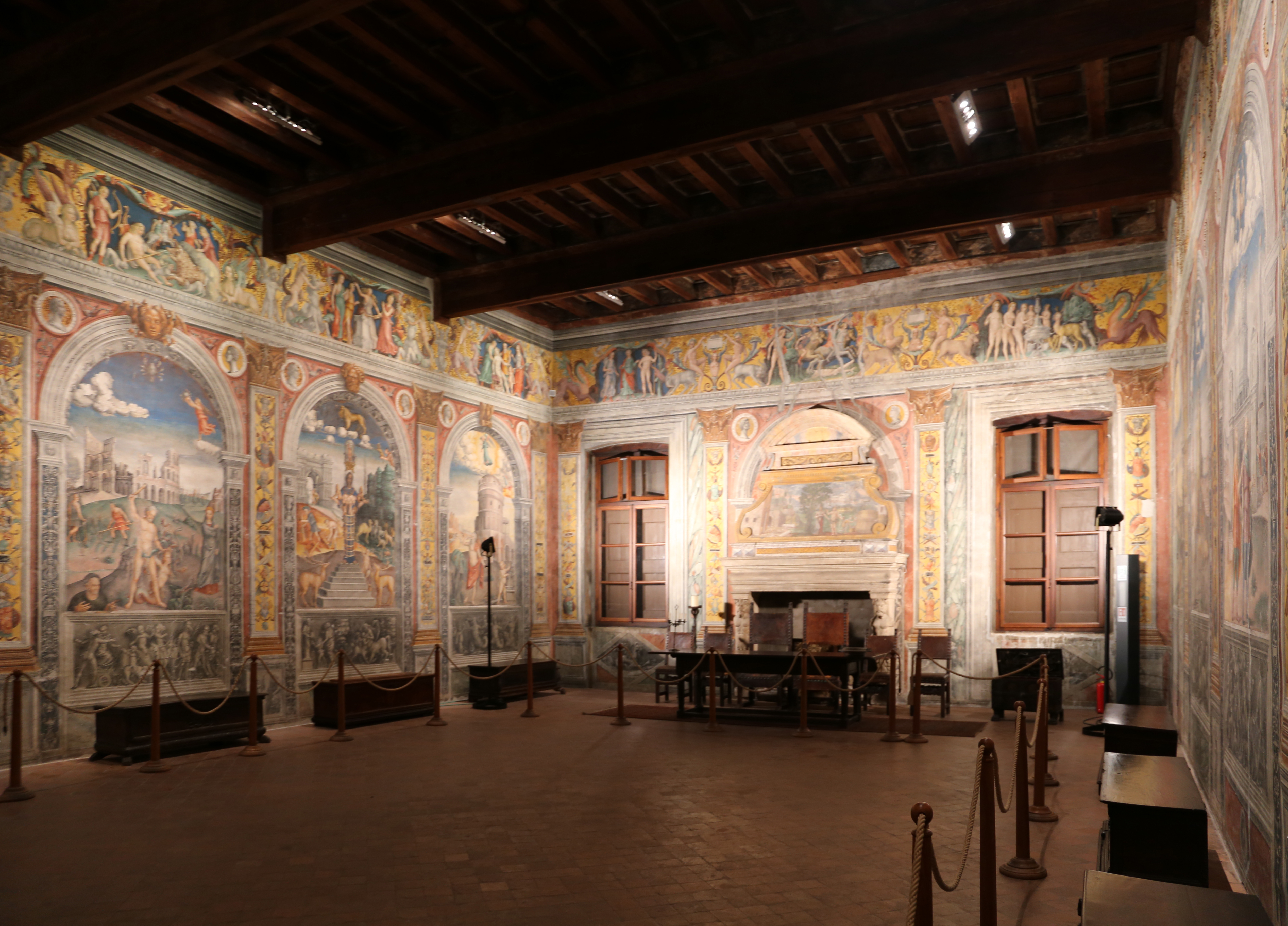 Zodiac Hall of Palazzo d'Arco